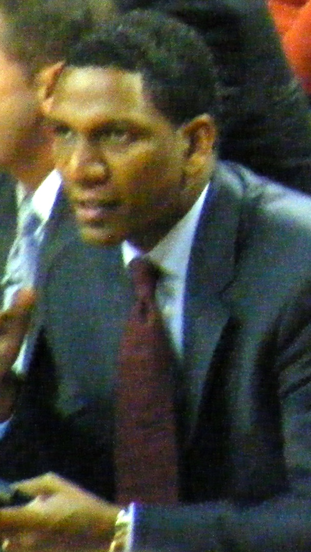 Texas A&M Aggies assistant men's basketball coach Alvin 'Pooh' Williamson during the game against the Texas Longhorns on February 18, 2008.